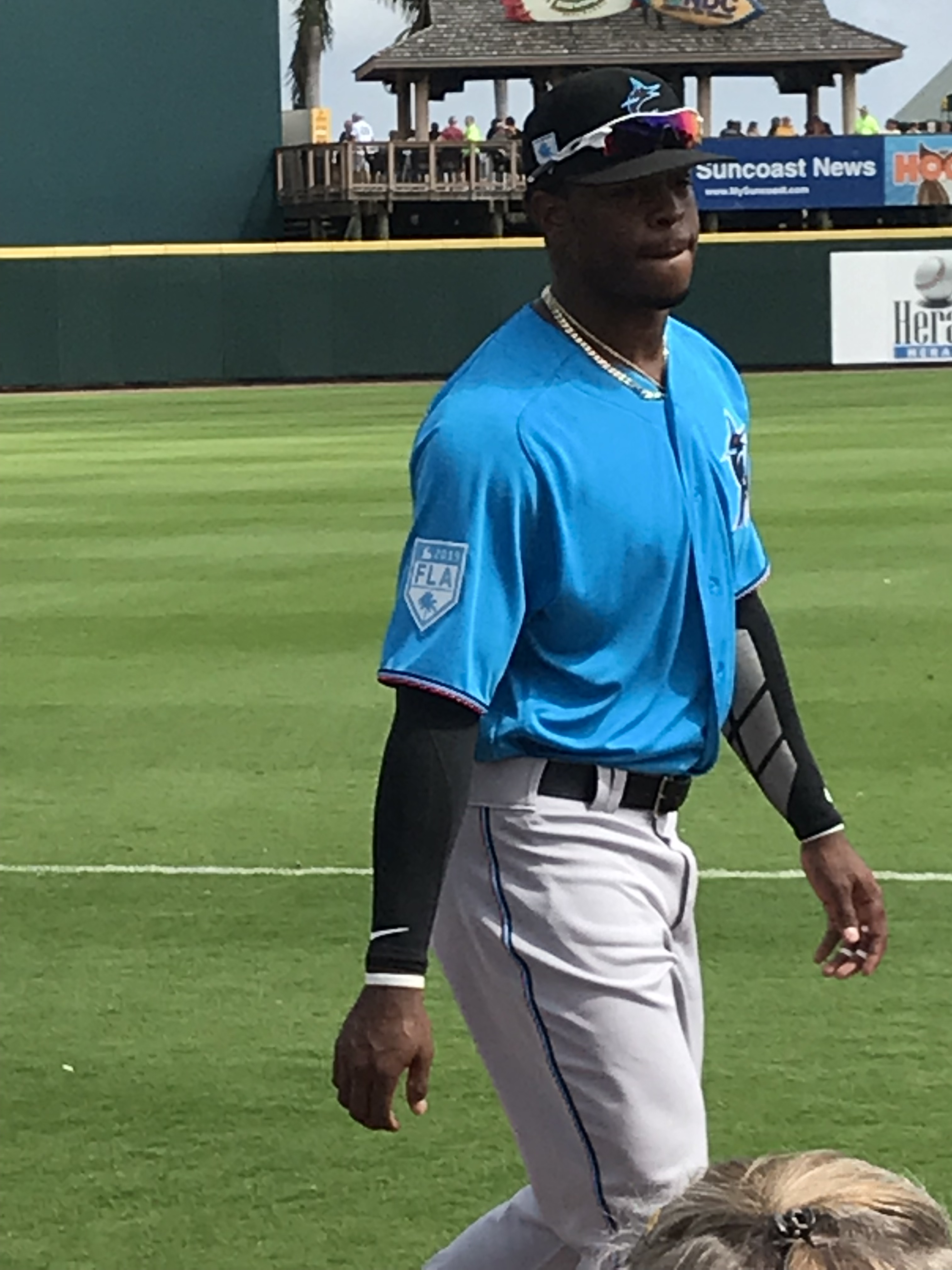 Monte Harrison walking to the dugout.